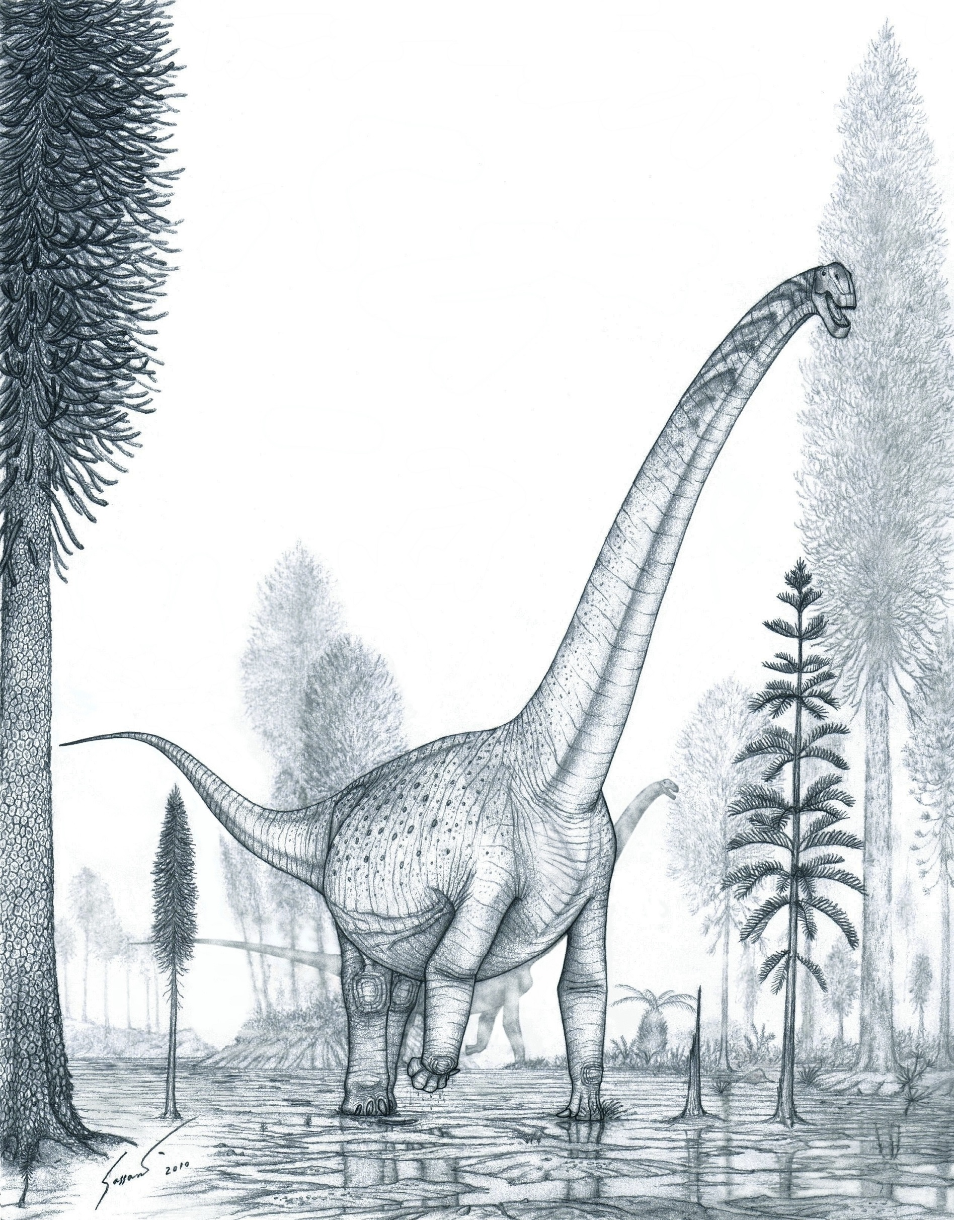 The huge new titanosaur Futalognkosaurus dukei in its natural habitat. It's a somewhat misty day in Argentina, about 90 million years ago. Futalognkosaurus ("Giant Chief Lizard") is known from a mostly complete neck, torso, hips, and a bit of tail and limb material, making it one of the most complete giant sauropods. It was around 28m long. The neck was unusually deep, and the backbone supported a wide rib cage.